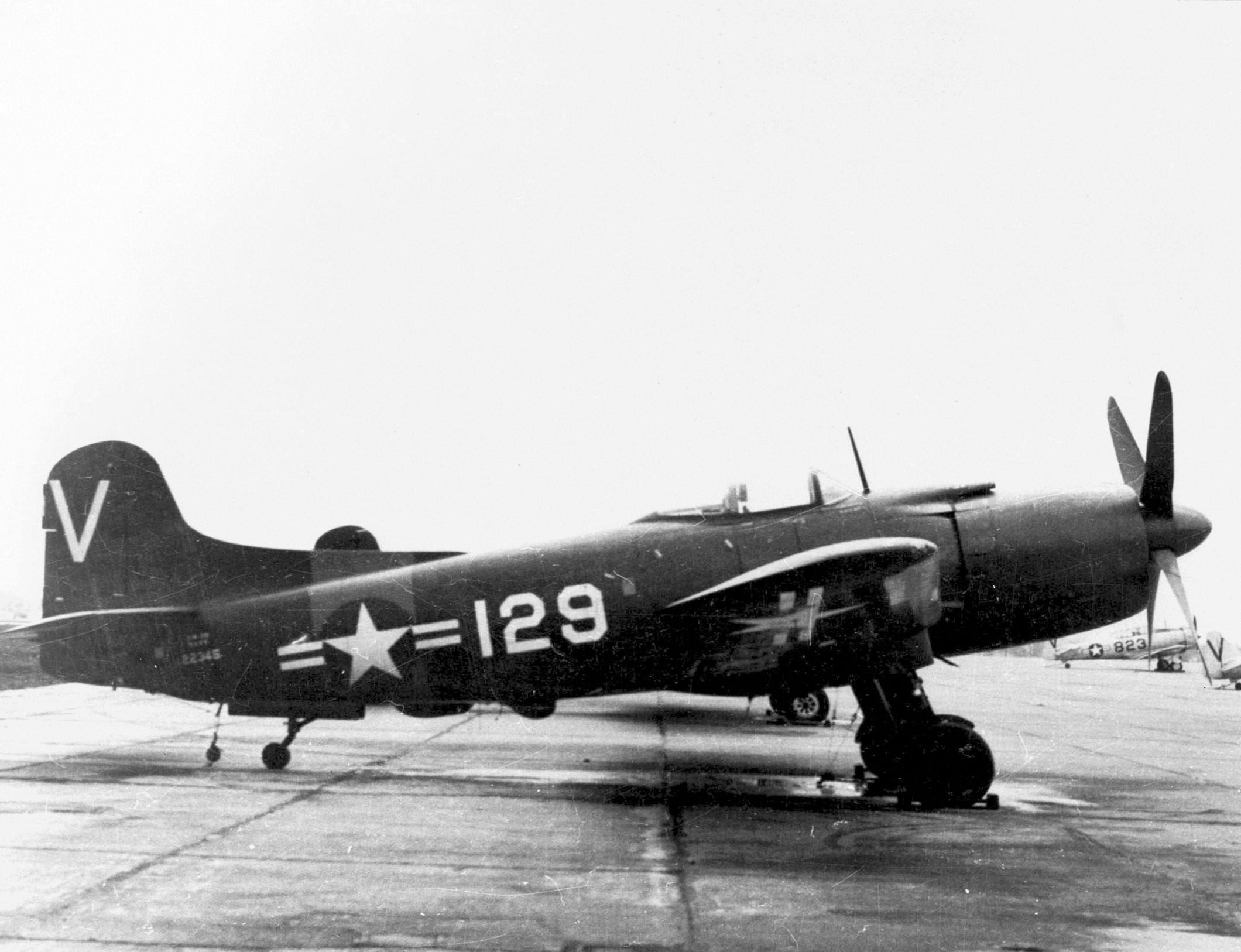 A U.S. Naval Air Reserve Martin Mauler AM-1Q Mauler electronic countermeasures aircraft (BuNo 22345) at the Naval Air (Reserve) Station Glenview, Illinois, in the early 1950s. Note the ECM aerials under the aft fuselage.